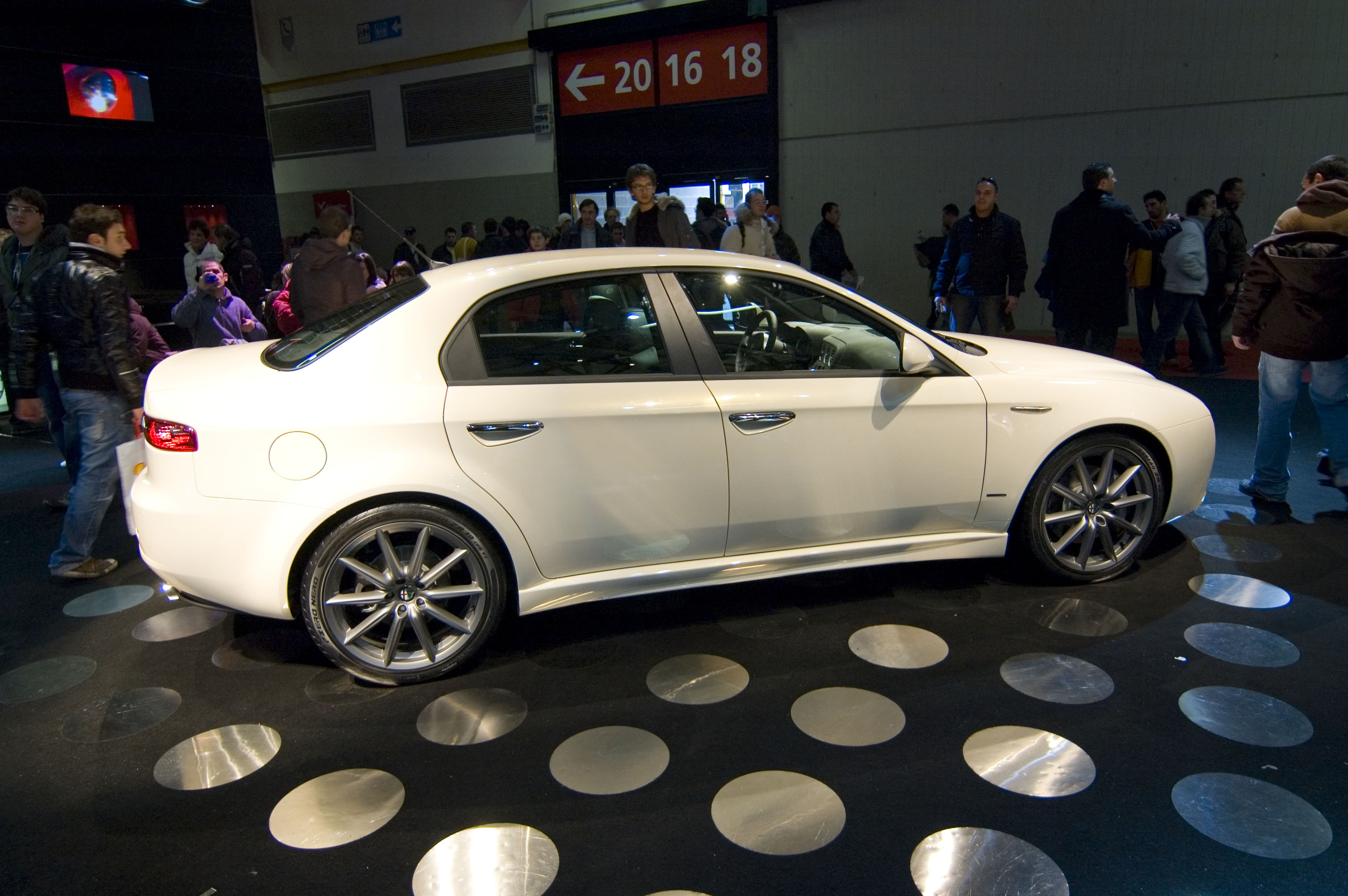 Motor Show 2007: Alfa 159